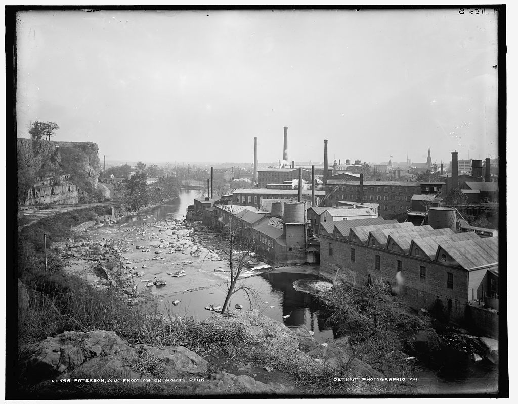 View of Paterson New Jersey from the water works park. Black and white photograph of the river and the textile mills on the right hand side.